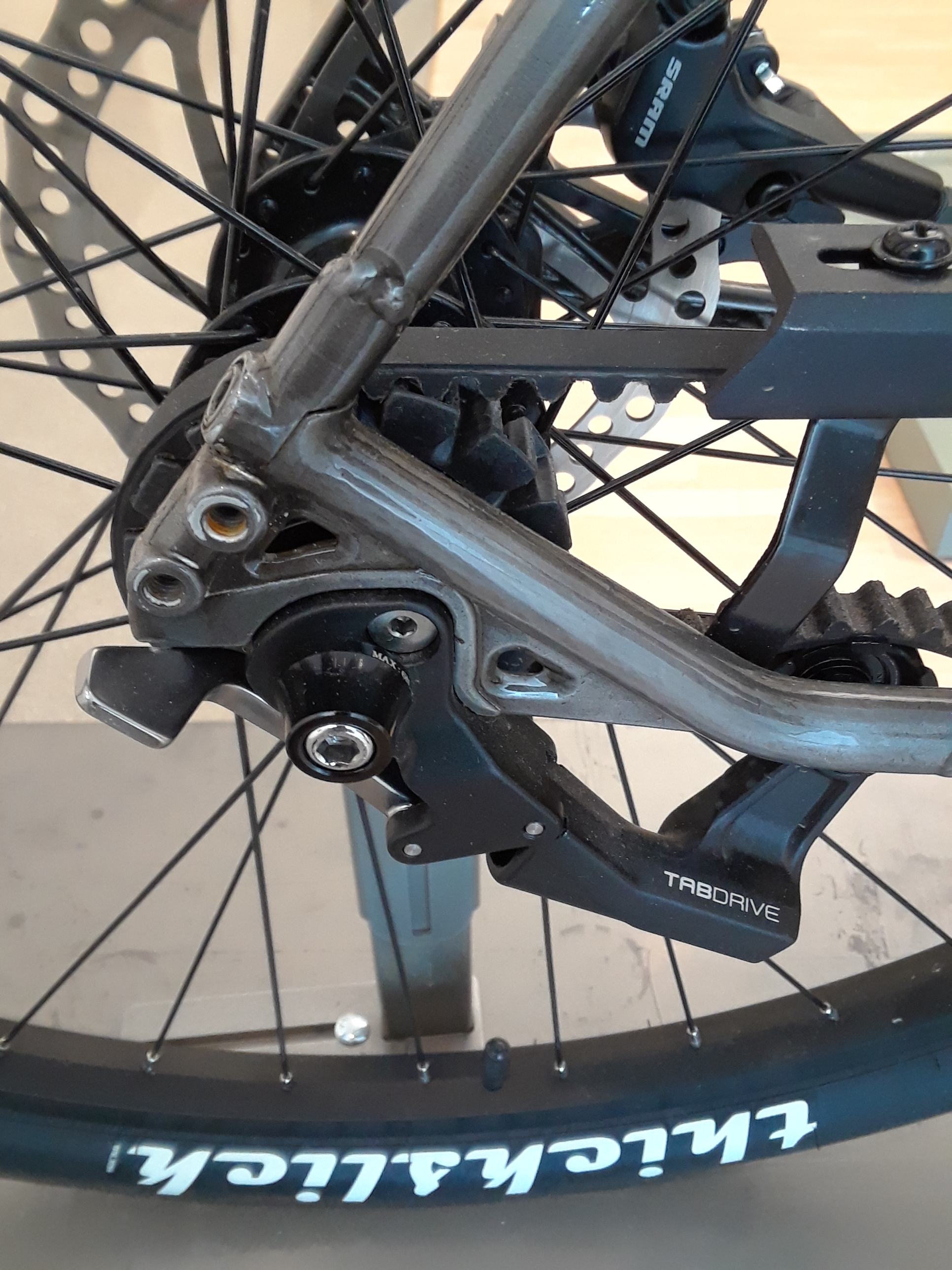 Trek TAB Belt Drive rear sprocket side view